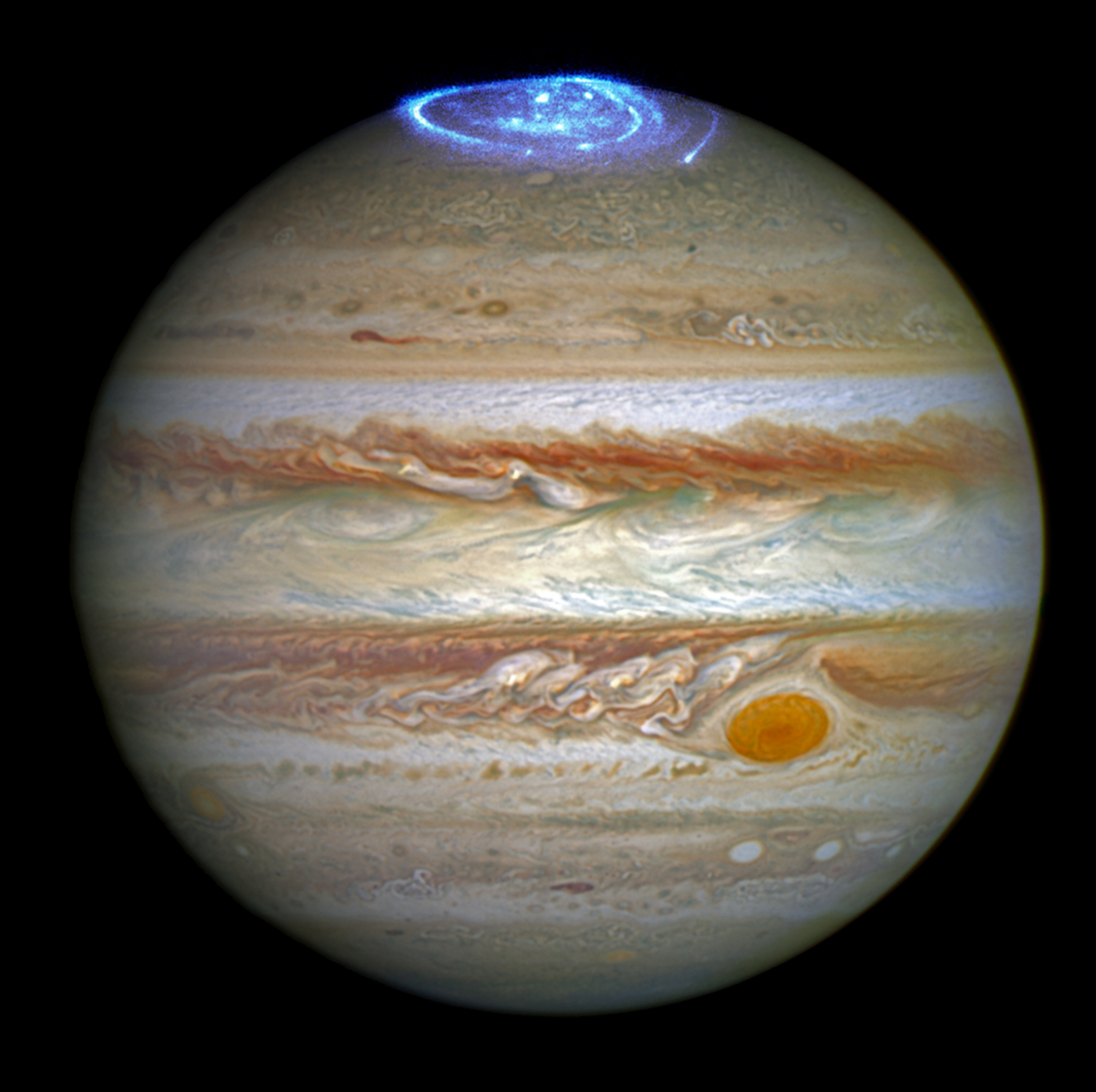 JUNE 30, 2016: Astronomers are using NASA's Hubble Space Telescope to study auroras — stunning light shows in a planet's atmosphere — on the poles of the largest planet in the solar system, Jupiter. The auroras were photographed during a series of Hubble Space Telescope Imaging Spectrograph far-ultraviolet-light observations taking place as NASA's Juno spacecraft approaches and enters into orbit around Jupiter. The aim of the program is to determine how Jupiter's auroras respond to changing conditions in the solar wind, a stream of charged particles emitted from the sun. Auroras are formed when charged particles in the space surrounding the planet are accelerated to high energies along the planet's magnetic field. When the particles hit the atmosphere near the magnetic poles, they cause it to glow like gases in a fluorescent light fixture. Jupiter's magnetosphere is 20,000 times stronger than Earth's. These observations will reveal how the solar system's largest and most powerful magnetosphere behaves. The full-color disk of Jupiter in this image was separately photographed at a different time by Hubble's Outer Planet Atmospheres Legacy (OPAL) program, a long-term Hubble project that annually captures global maps of the outer planets.